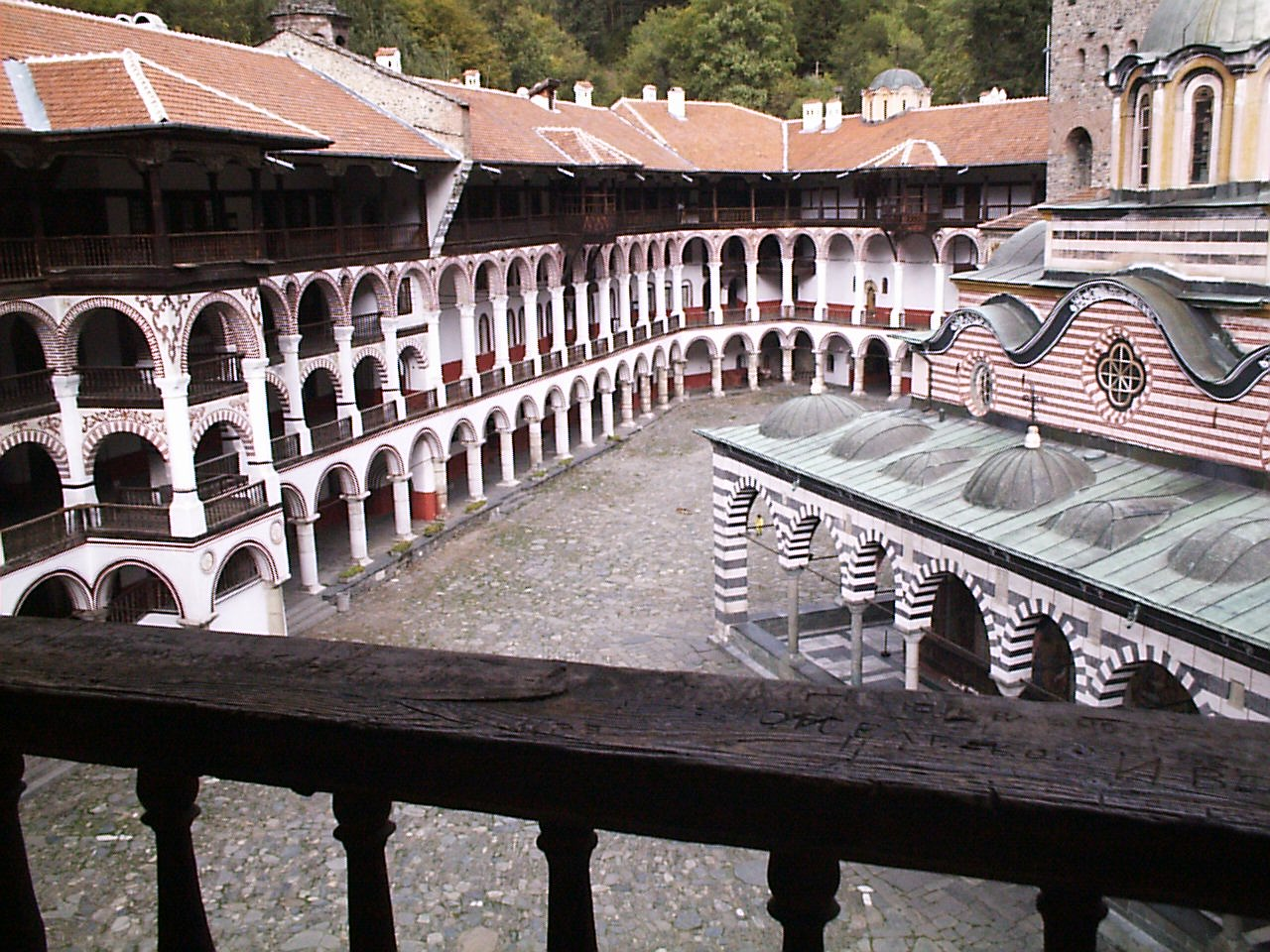 Rila Monastery